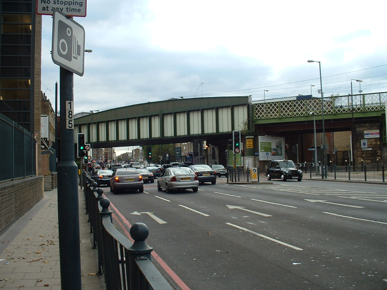 A13 Commercial Road looking west near Limehouse railway station, with c2c railway bridge in distance.